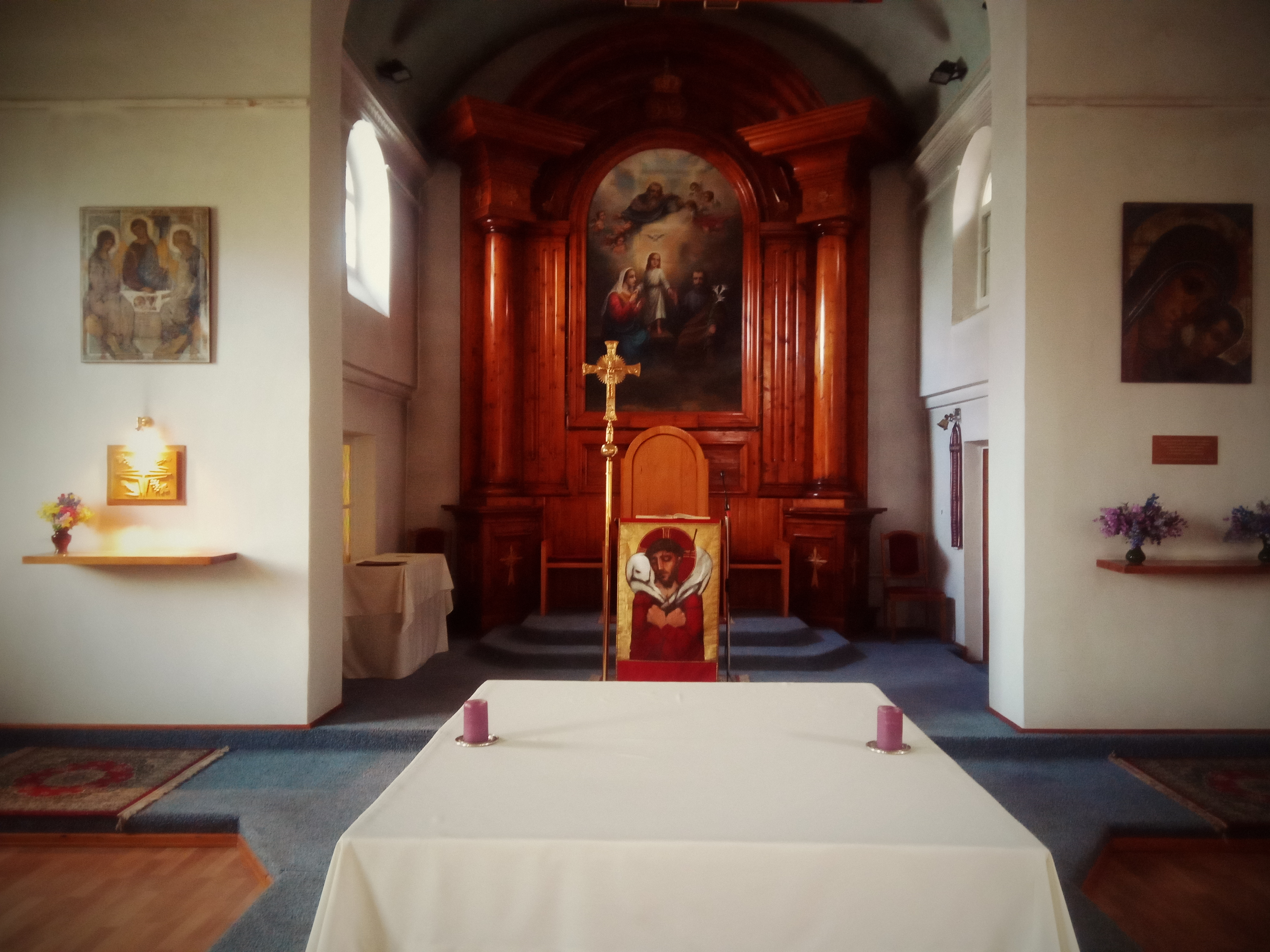 Aktobe – Parafia Dobrego Pasterza prezbiterium 2018